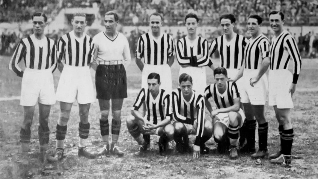 A line-up of F.B.C. Juventus in the 1930–31 season. From left to right, standing: O. Barale, U. Caligaris, G. Combi, G. Ferrari, M. Ferrero, F. Munerati, G. Vecchina, M. Varglien (I); crouched: R. Orsi, R. Cesarini, F. Rier.